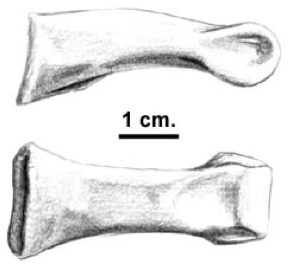 A proximal phalanx referred to Kakuru kujani, SAM P18010. Top, lateral view; bottom, dorsal view.